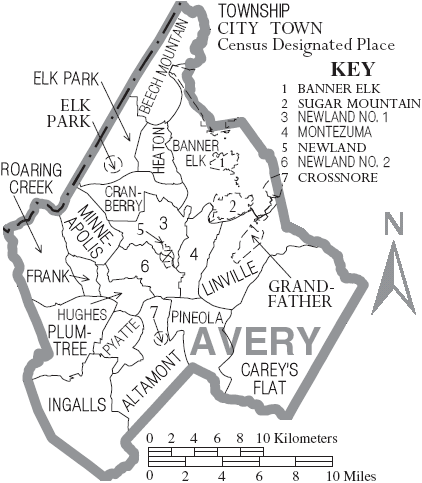 Map of Avery County, North Carolina, United States with township and municipal boundaries